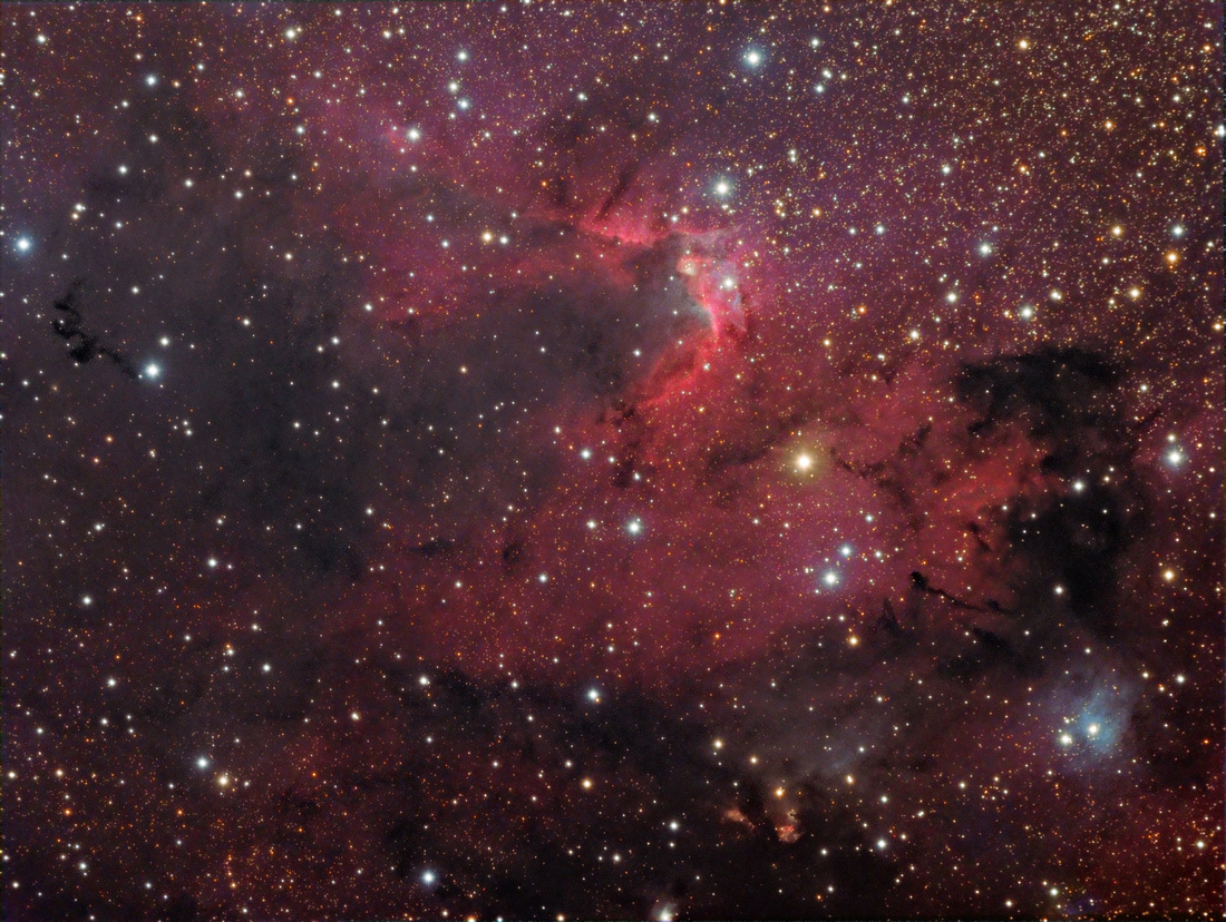 Sh2-155 - Cave Nebula in Cepheus by amateur equipment. Blue reflection nebula vdB 155 is present at the lower right. LDN1215 an LDN1214 are protruding in from the right over top of vdB 155. Other interesting structures, such as the curly spring or "pig tail" dark nebula on the left seems to be nameless.